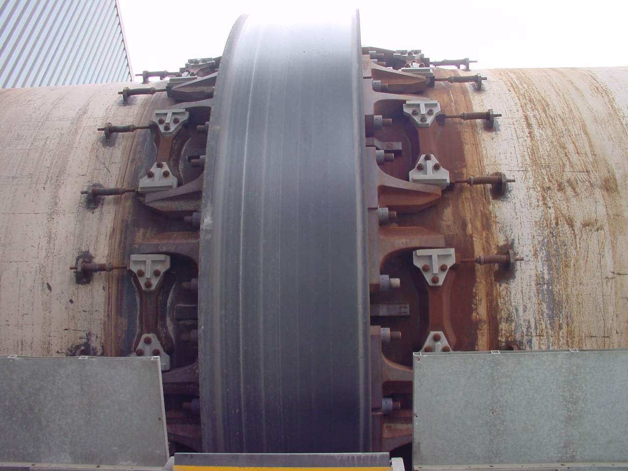 Detail of a tyre of a rotary kiln, showing mechanism for compensating for expansion